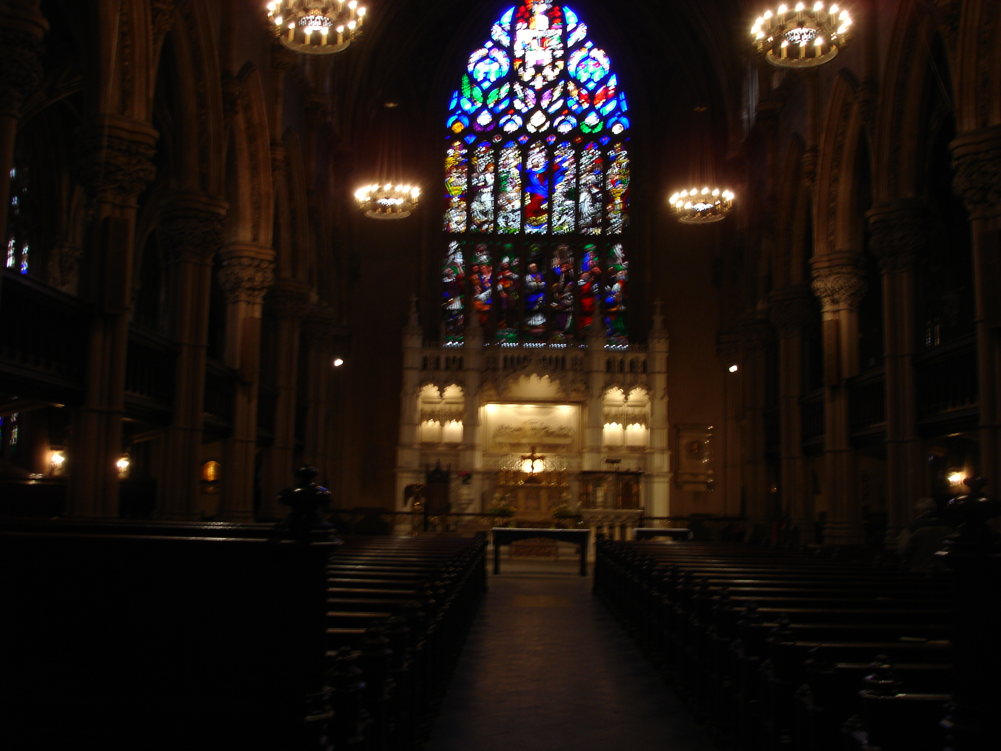 This photo is of Wikipedia Takes Manhattan location code 180, St. Ann and the Holy Trinity Church.